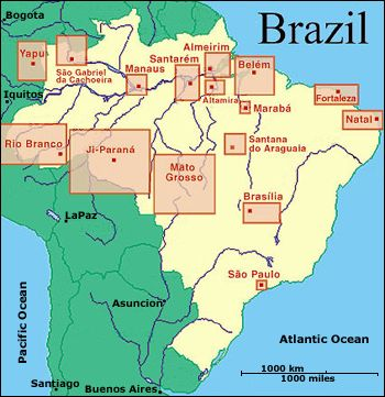 Biosphere development in response to Deforestation in Brazil. Map drawn up from a NASA related study